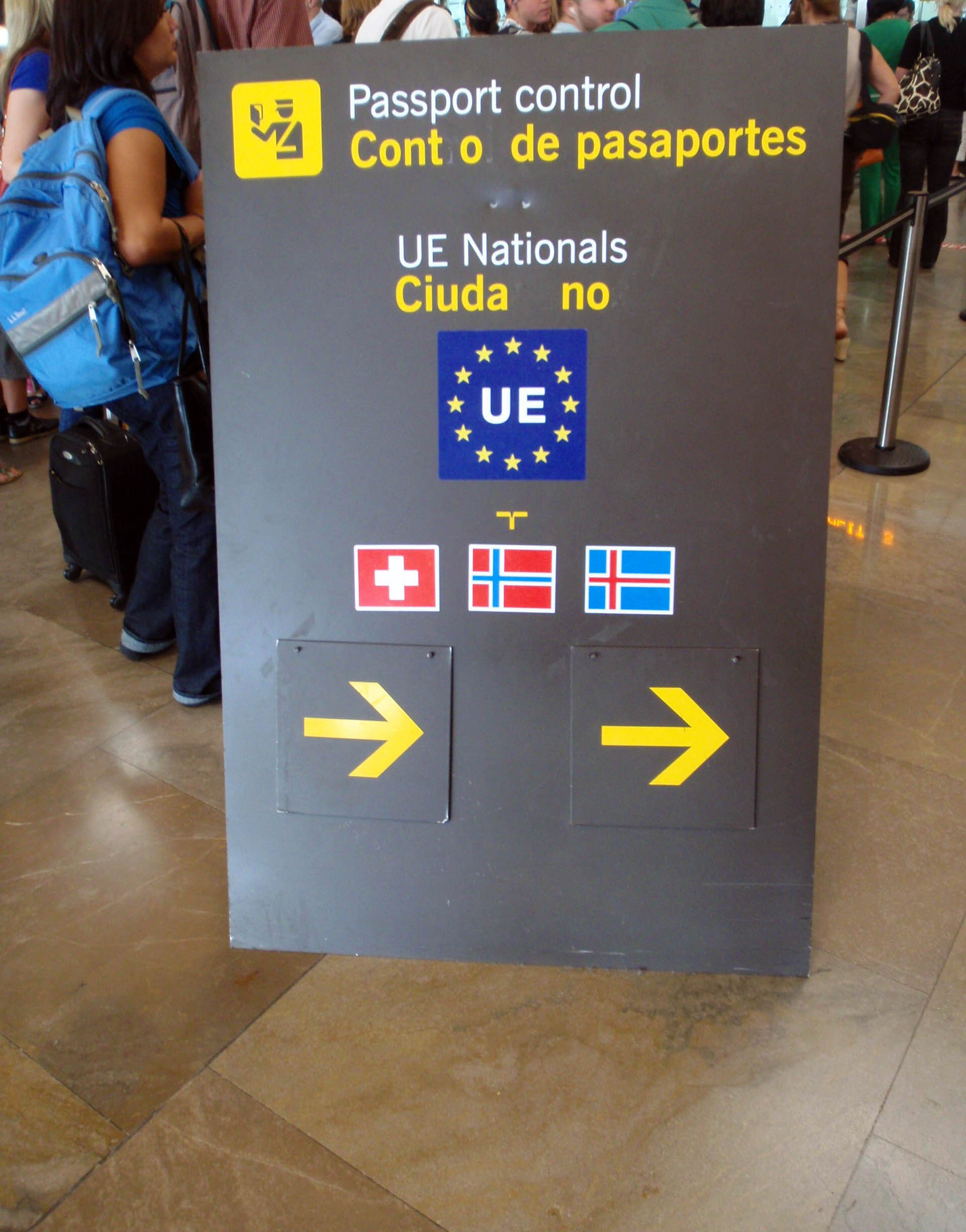 Passport control, Madrid-Barajas Airport. European Union Nationals and Switzerland, Norway, Iceland.